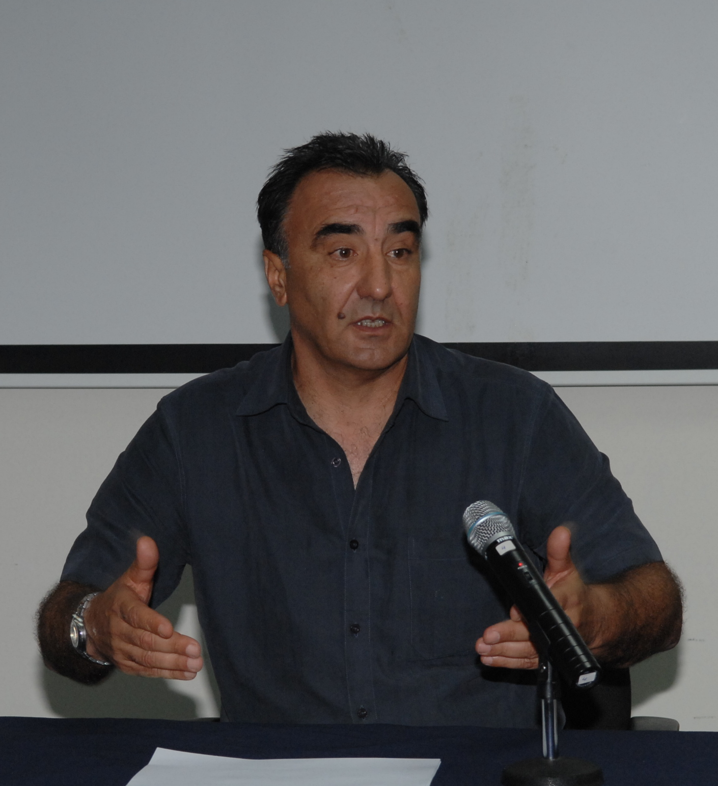 Senad Kreso in a Press Conference for Bahrain National Football Team. Bahrain National Stadium 2 November 2006 Photographer email id